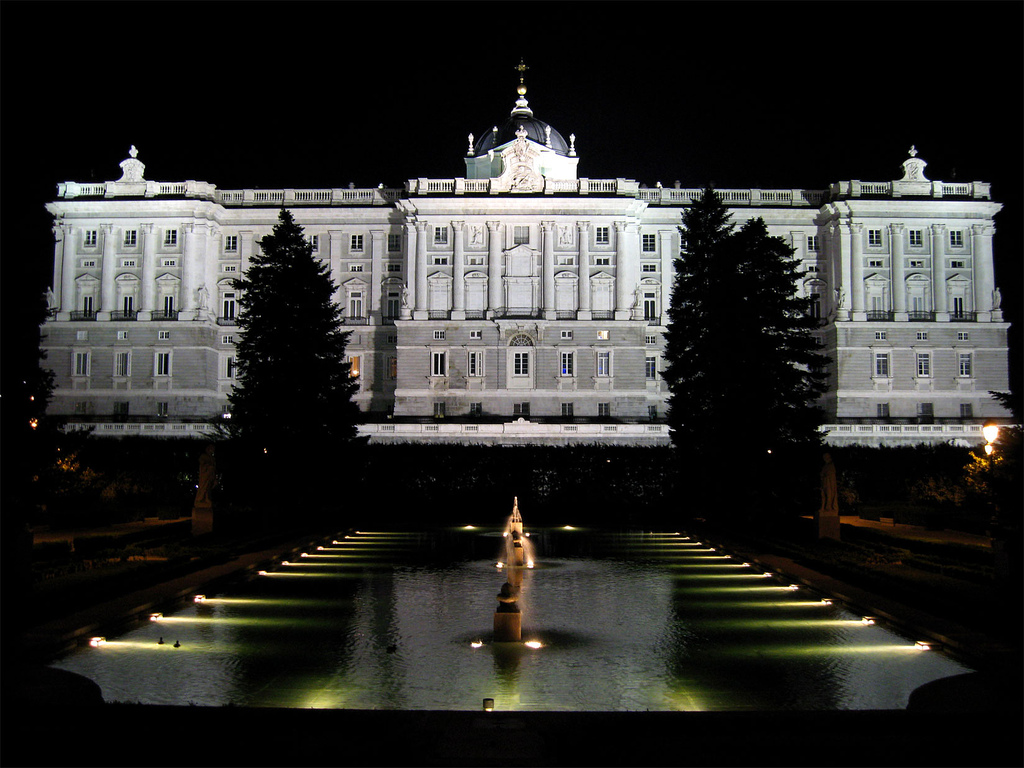 Night view from Sabatini Gardens, beside the north façade of the Royal Palace (in the background) of Madrid (Spain).